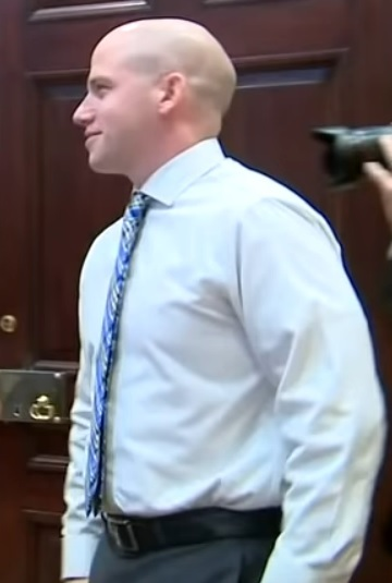 Screenshot from video : U.S President Obama with YouTube video content creators